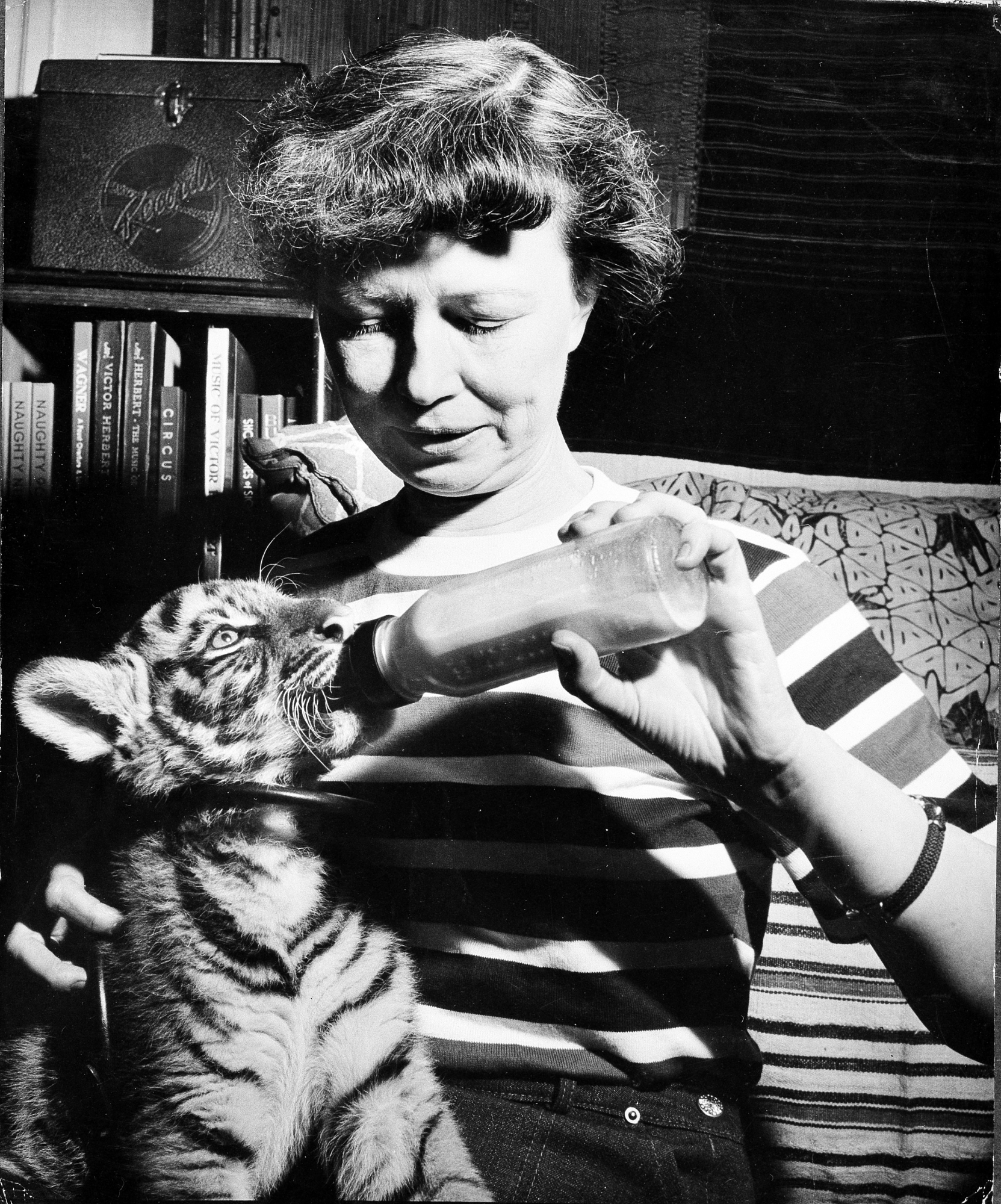 Lucile Quarry Mann, wife of the National Zoological Park director, William M. Mann, feeding a tiger cub named Babette from a bottle. The Manns raised the cub at home, May 26, 1949. Record Unit 371, Box 5, Folder January 1987, Image ID# 79-11710, Flickr Link